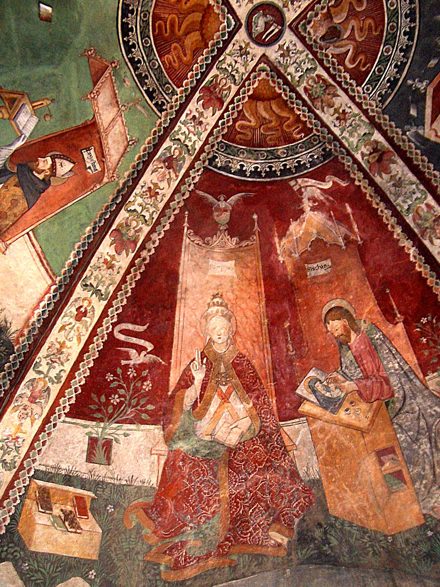 Rocca Canavese, Santa Croce chapel, fresco in the vault representing an Evangelist (St. Luke) and a Doctor of the Church (Pope Gregory I)